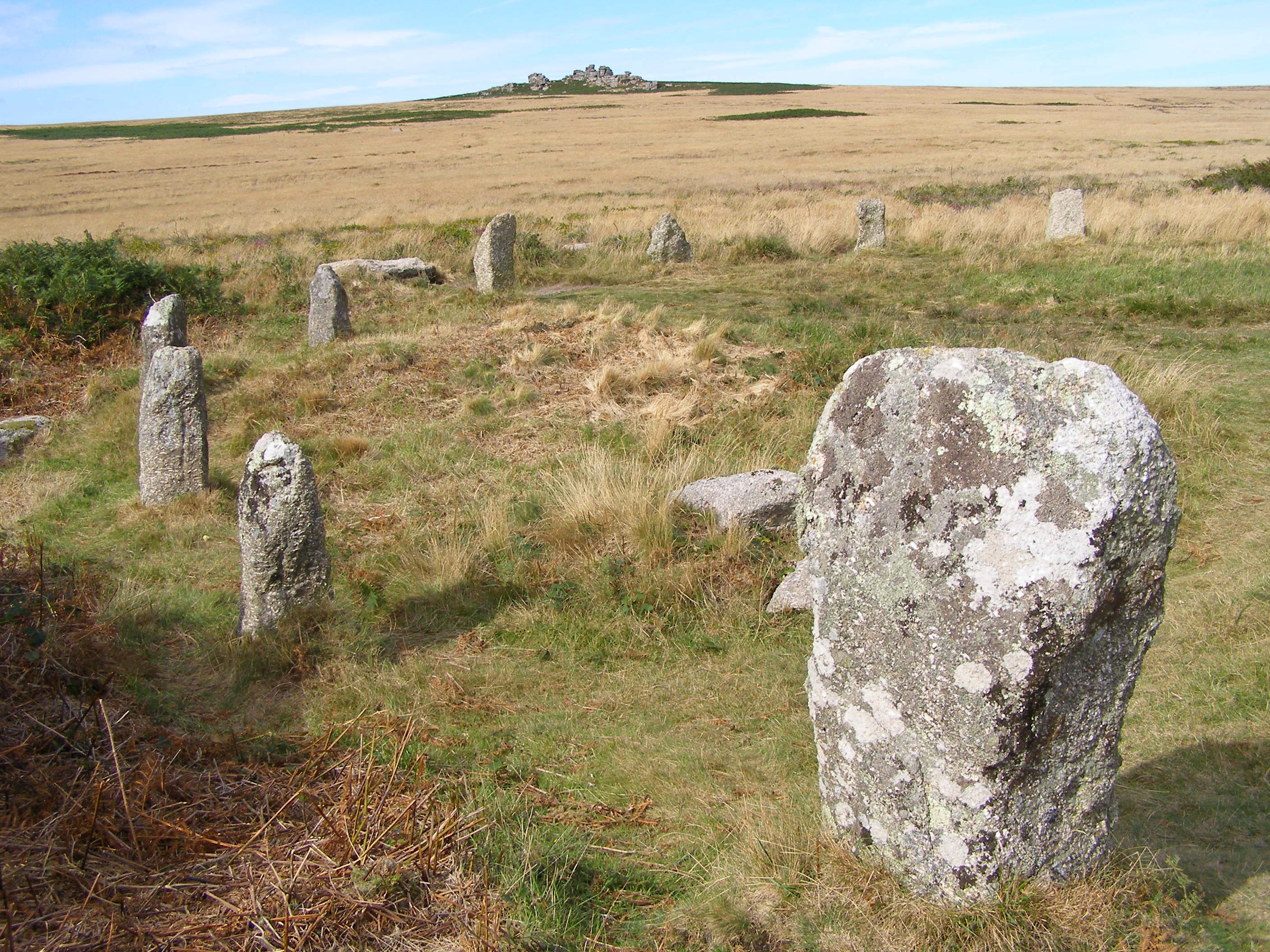 Tregeseal East stone circle with Carn Kenidjack in the distance, near St Just in Penwith, Cornwall